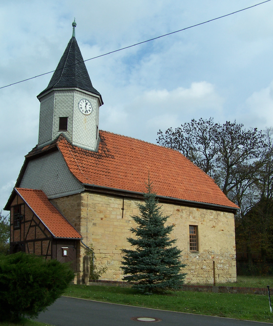 The church in Uetteroda village.